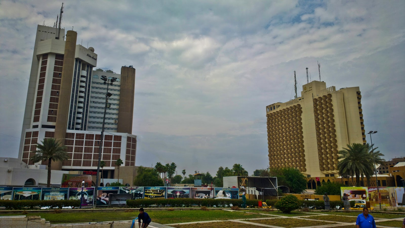 Palestine Meridian hotel and Ishtar Sheraton hotel in Baghdad, Iraq